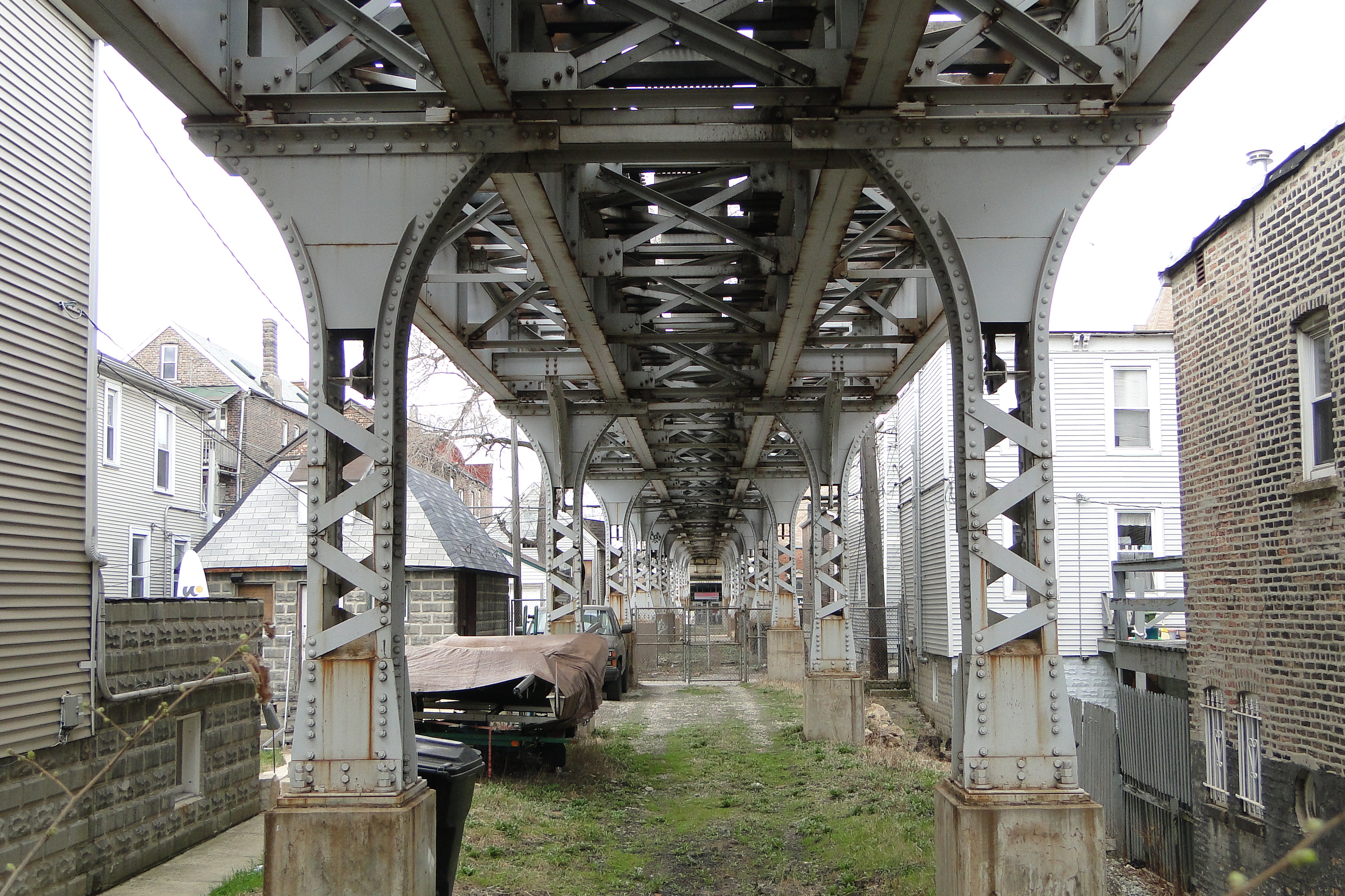 Under the L-Train Tracks - Pilsen Neighborhood - Chicago - Illinois - USA - 02